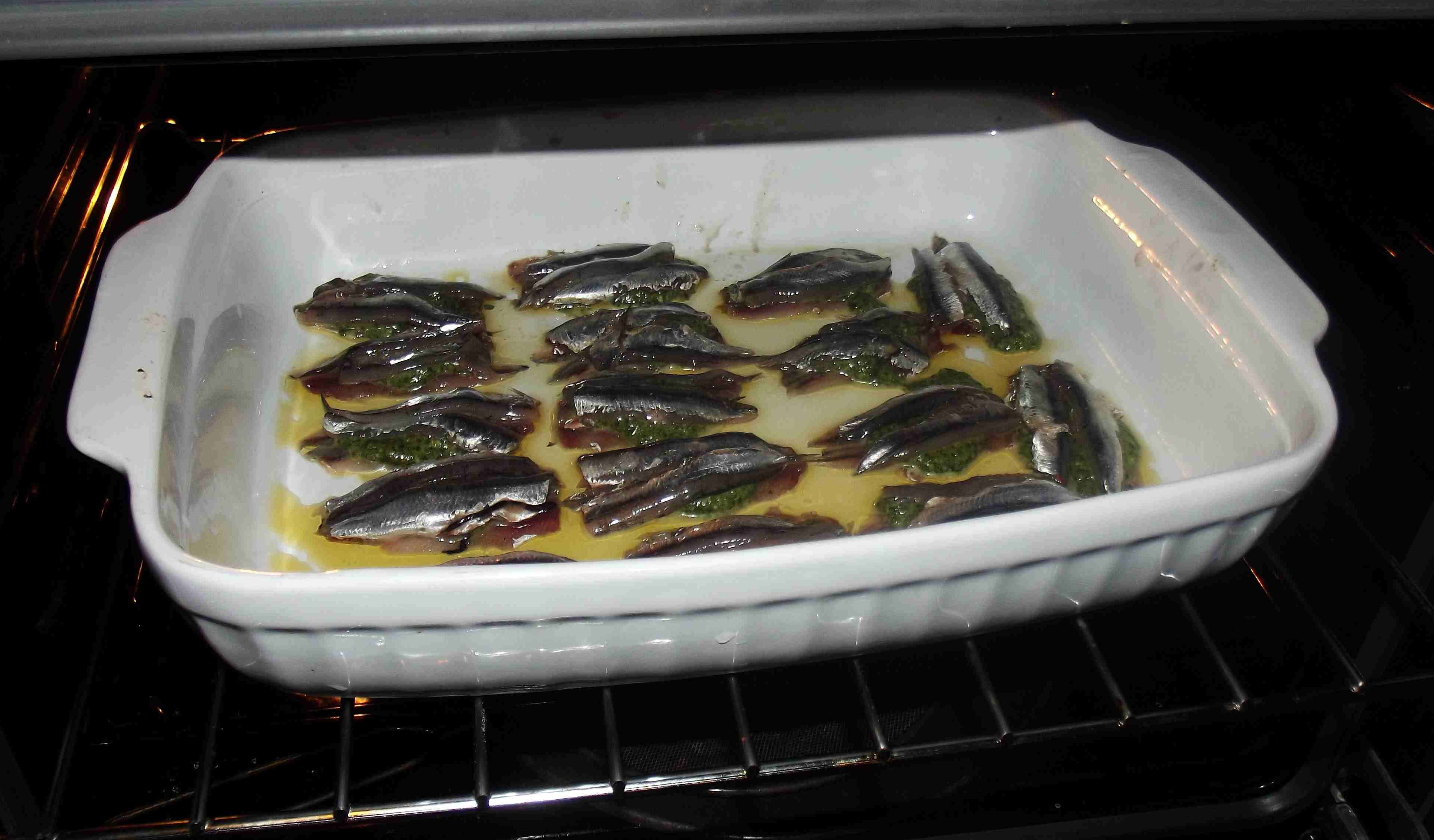 Stuffed anchovies ready for the oven